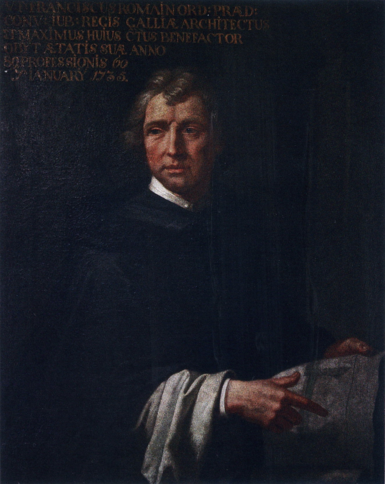 Portrait by an unknown painter of the architect and Dominican priest Franciscus Romanus (1647-1735). Collection Town Hall, Maastricht, the Netherlands.